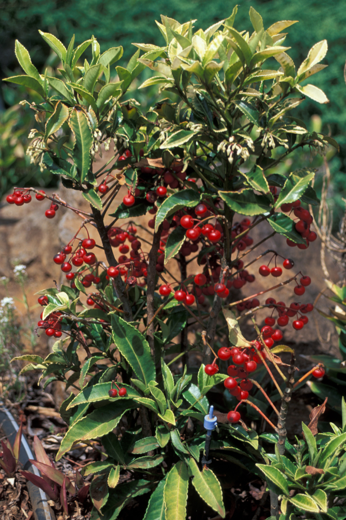 Ardisia crenata (fruit). Location: Maui, Enchanting Floral Gardens of Kula